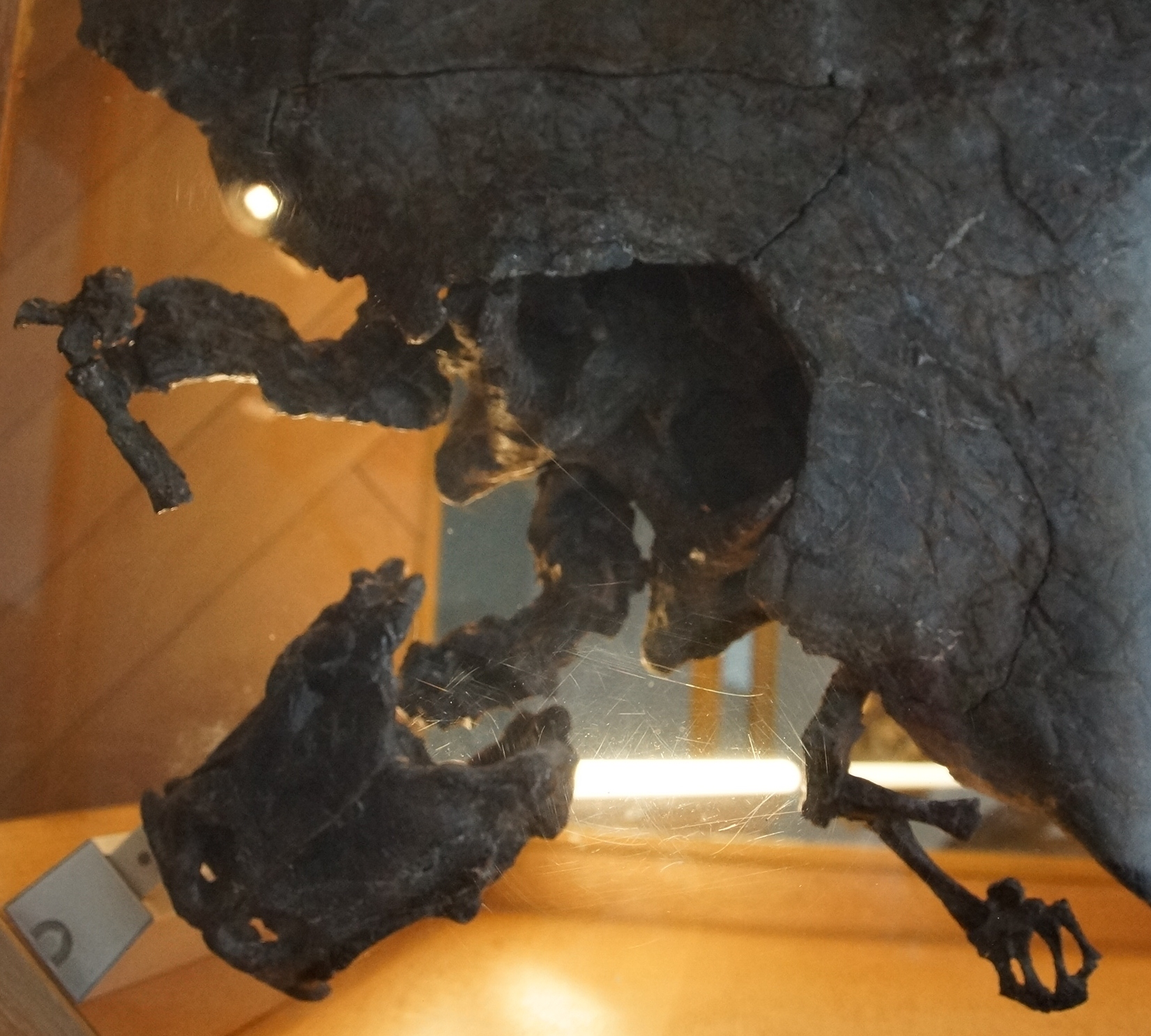 Henodus chelyops exhibited in the paleontological institut of the university of Tübigen (Germany)